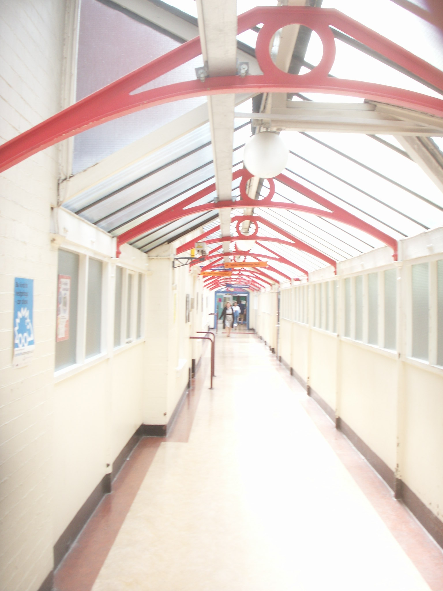 Manchester Royal Infirmary main corridor